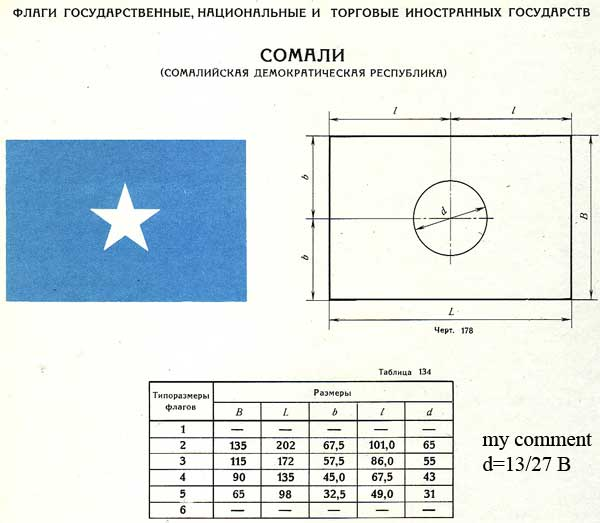 Construction of a flag of Somalia